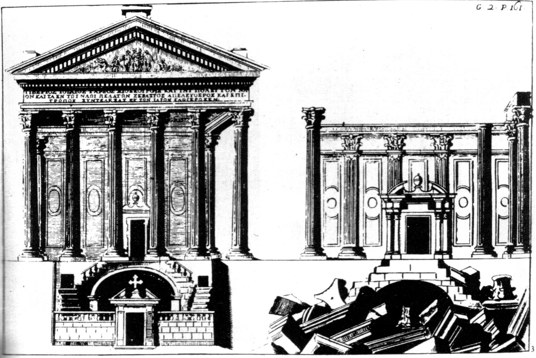 Celano's "Notizie del Bello..." (1692) - Facade of the church San Paolo Maggiore (Naples) before and after the collapse of 1688 (due to an earthquake).